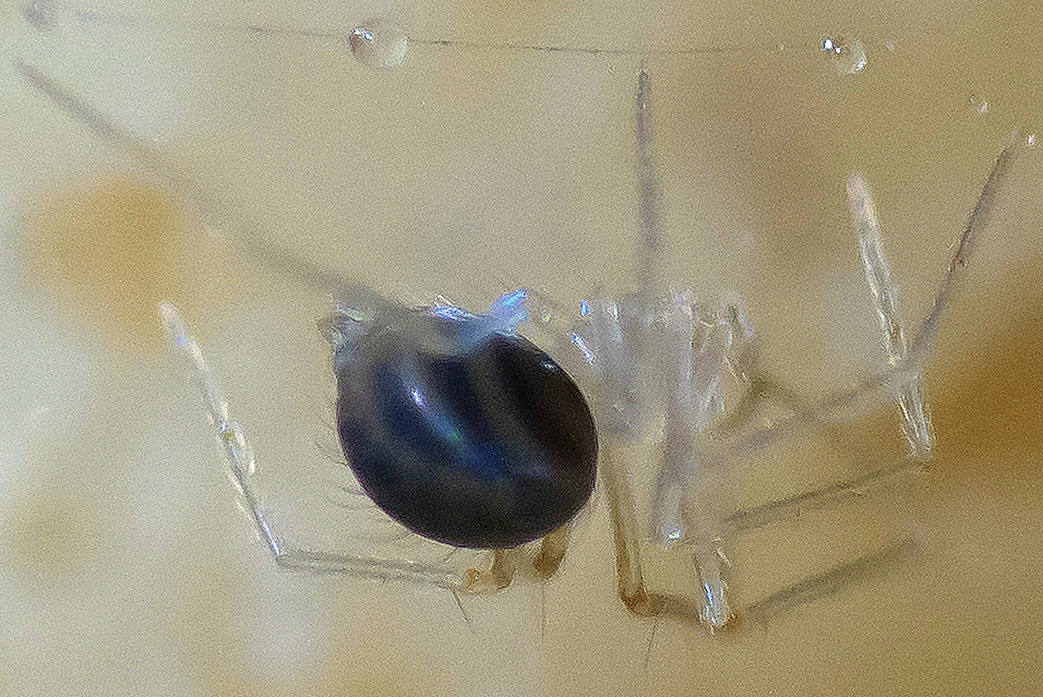 Telema tenella (Arachnida: Telemidae) hanging beneath web. The photo taken in an unnamed cave in Banys de la Preste to Prats of Molló, France.